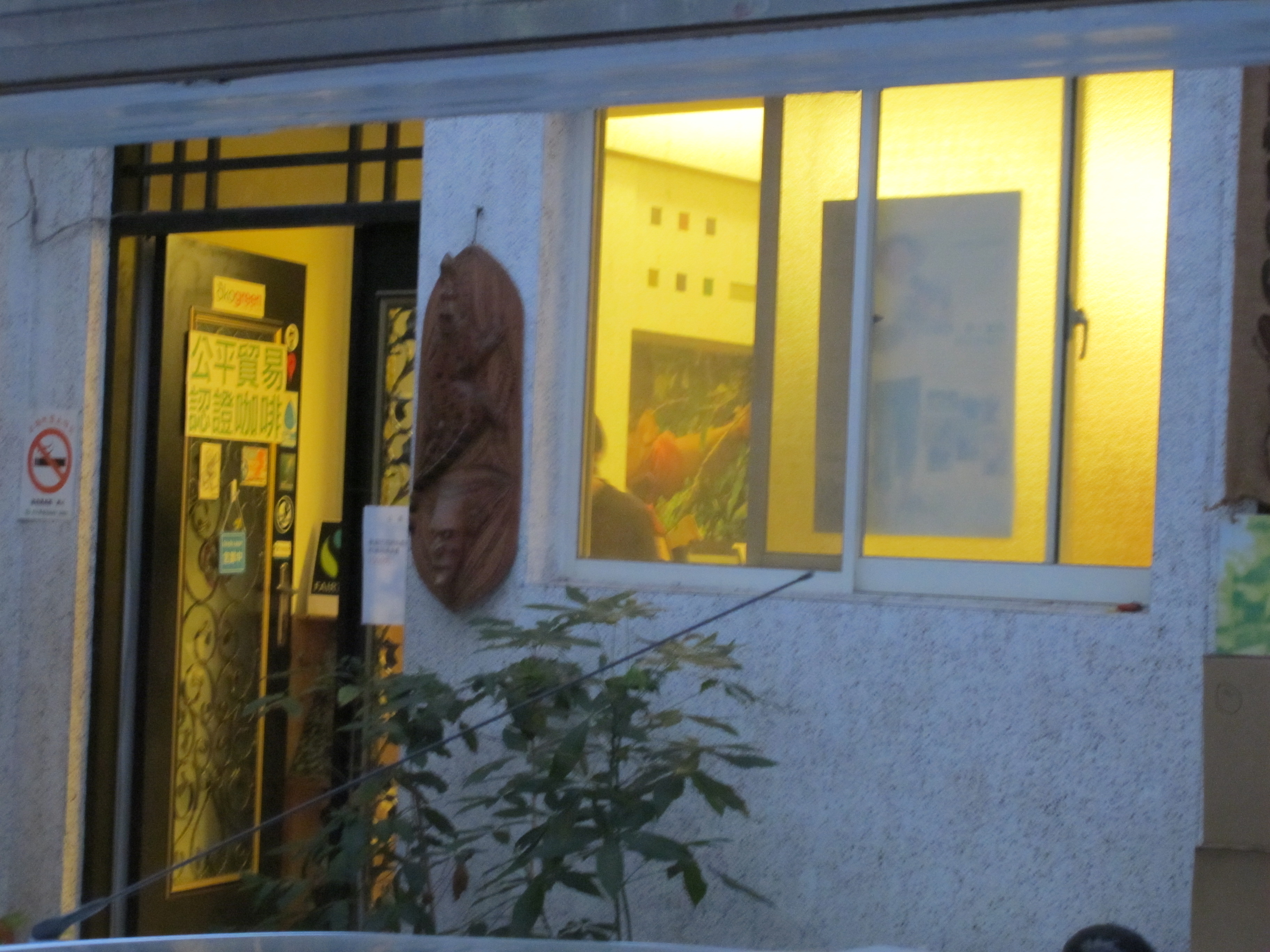 Wikipedia Taiwan Taipei Weekly meetup (2011-03-14), at OKOGREEN Coffee.